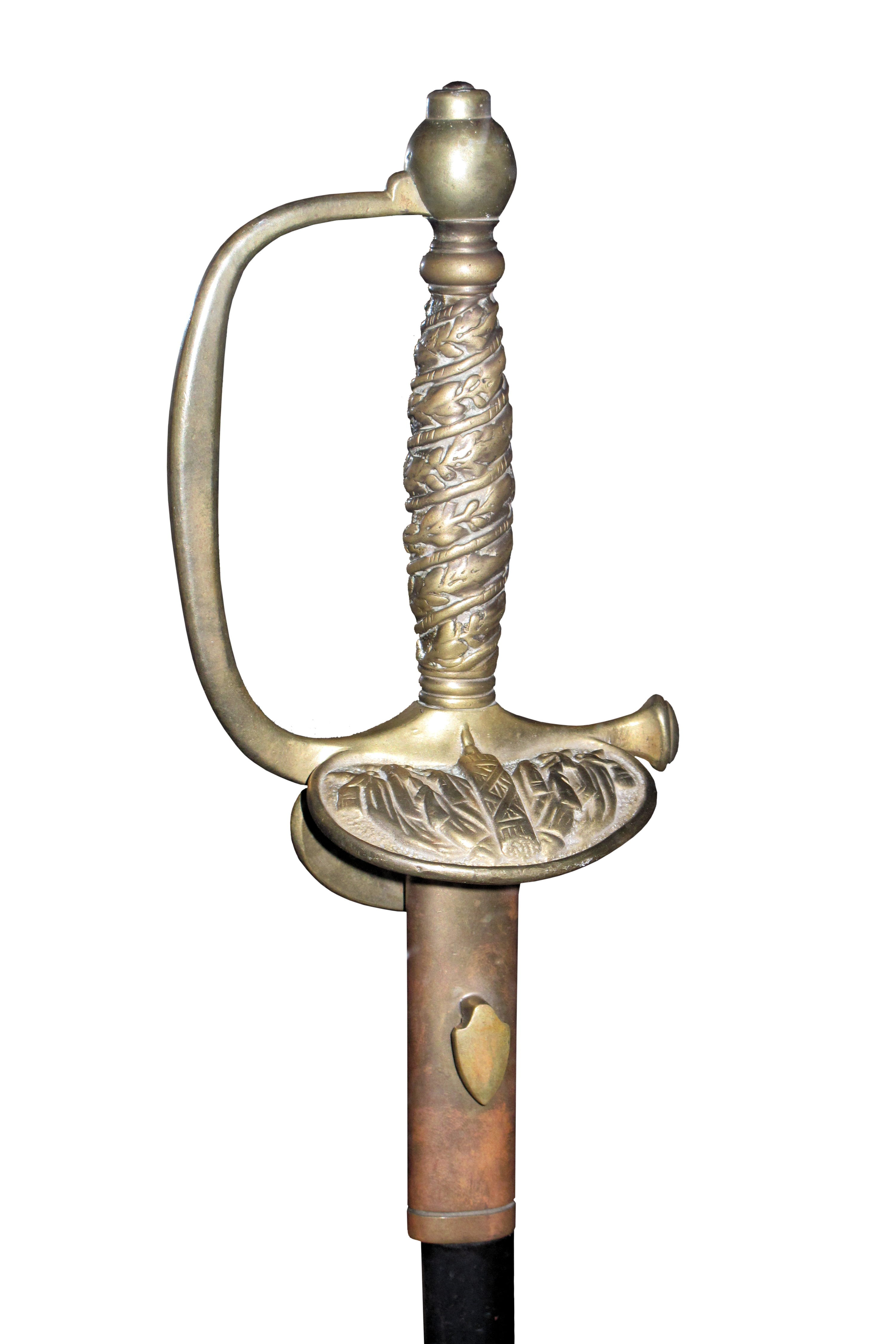 Italian officer smallsword, on display in Esino military chappel